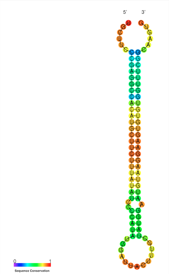 m